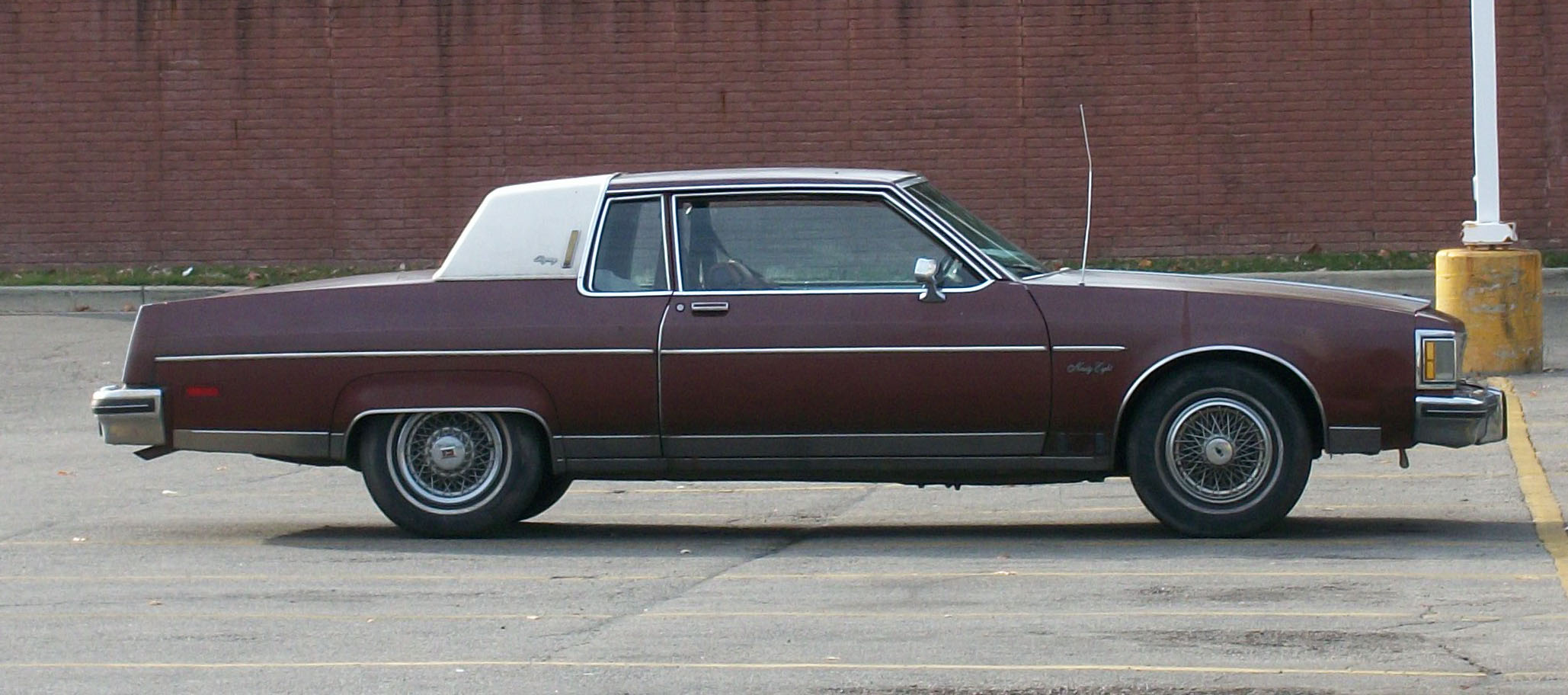 1980-1984 Oldsmobile Ninety-Eight Regency Brougham Coupe photographed in Lansing, Michigan.